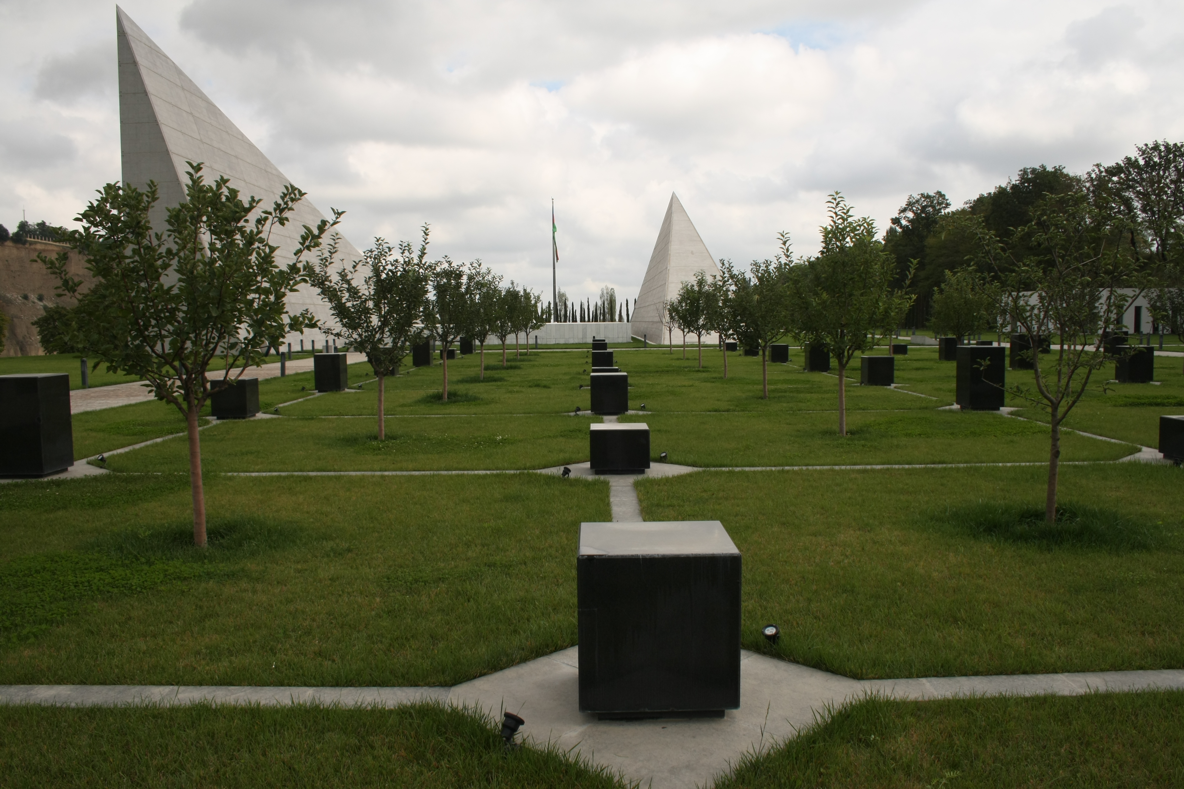 View of Guba Genocide Memorial Complex